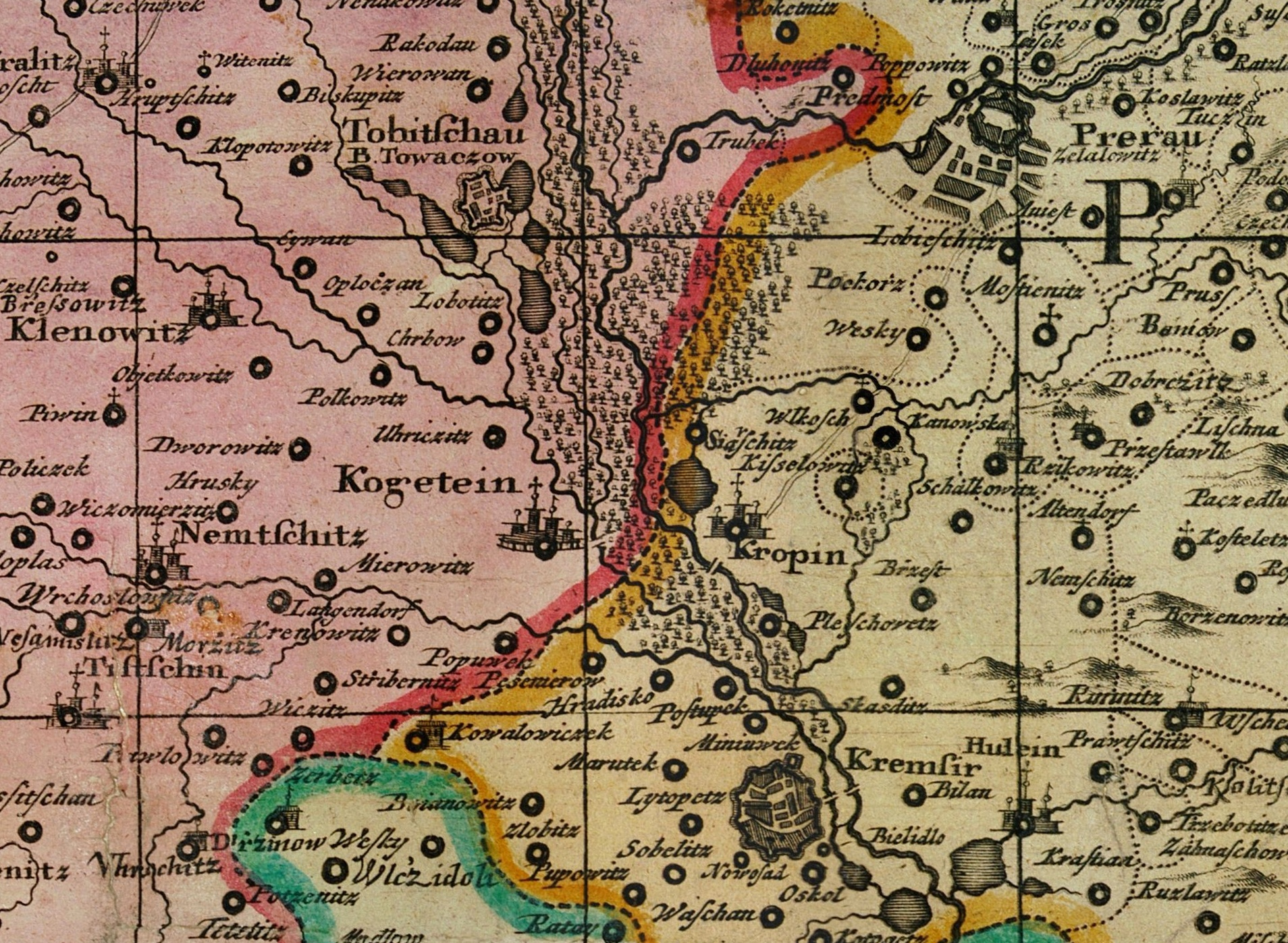 Area SW of Přerov. Müller's map of Moravia (originally from the year 1716), this is second edition published in 1790.